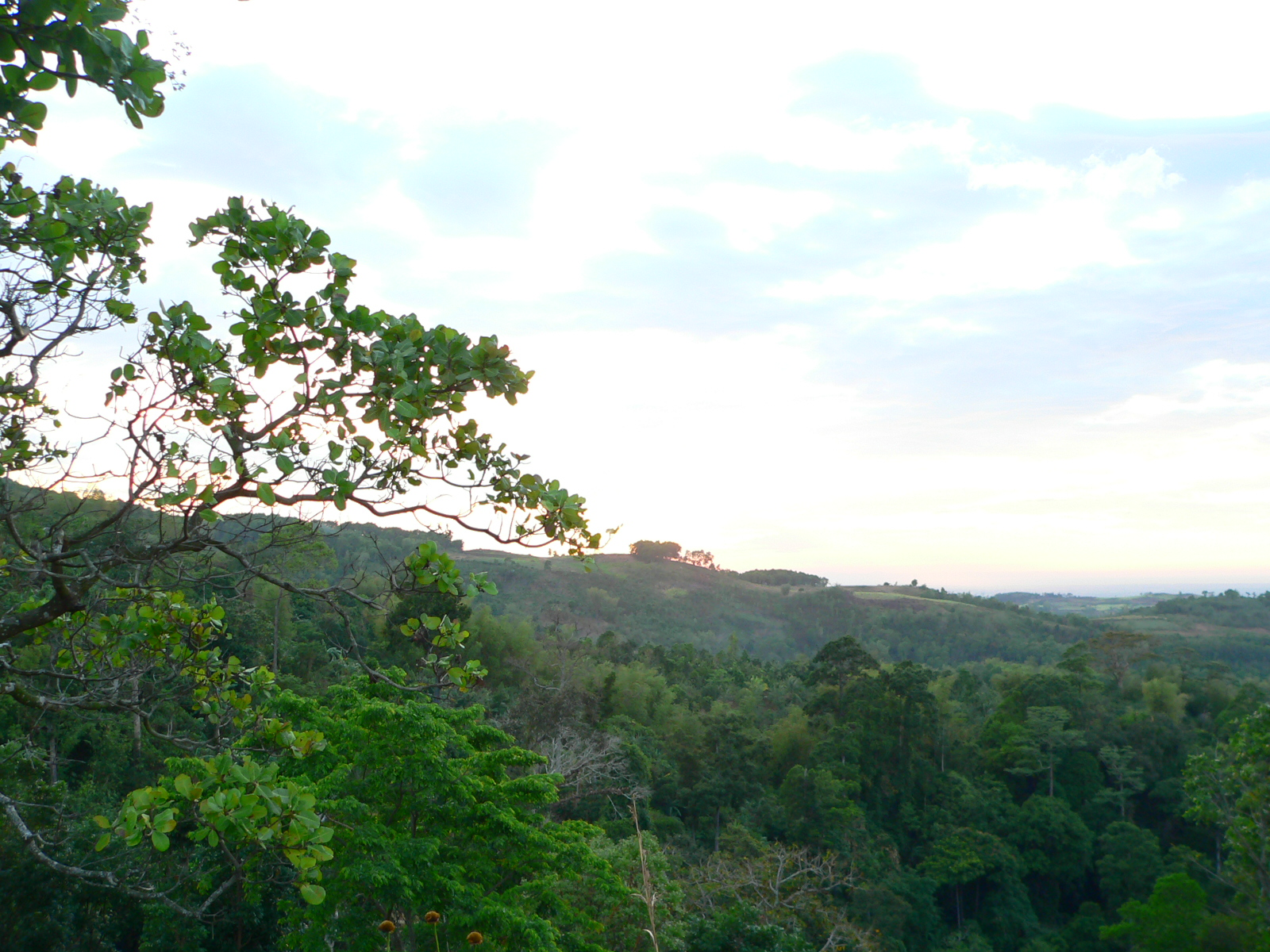 View from Kanlaon Mountain Tagalog: isang angulo ng mga tanawin mula sa Bundok Kanlaon.